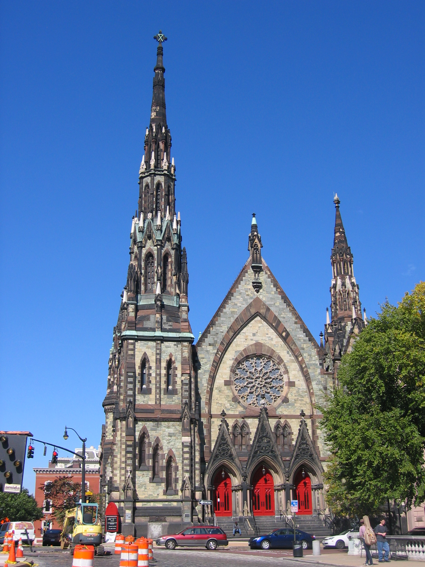 "Mount Vernon Place United Methodist Church is a prime example of Victorian Gothic architecture. Conceived of as a "Cathedral of Methodism," the building was designed by Thomas Dixon and Charles L. Carson and completed on November 12, 1872 in what was then the outskirts of the city." More information here.